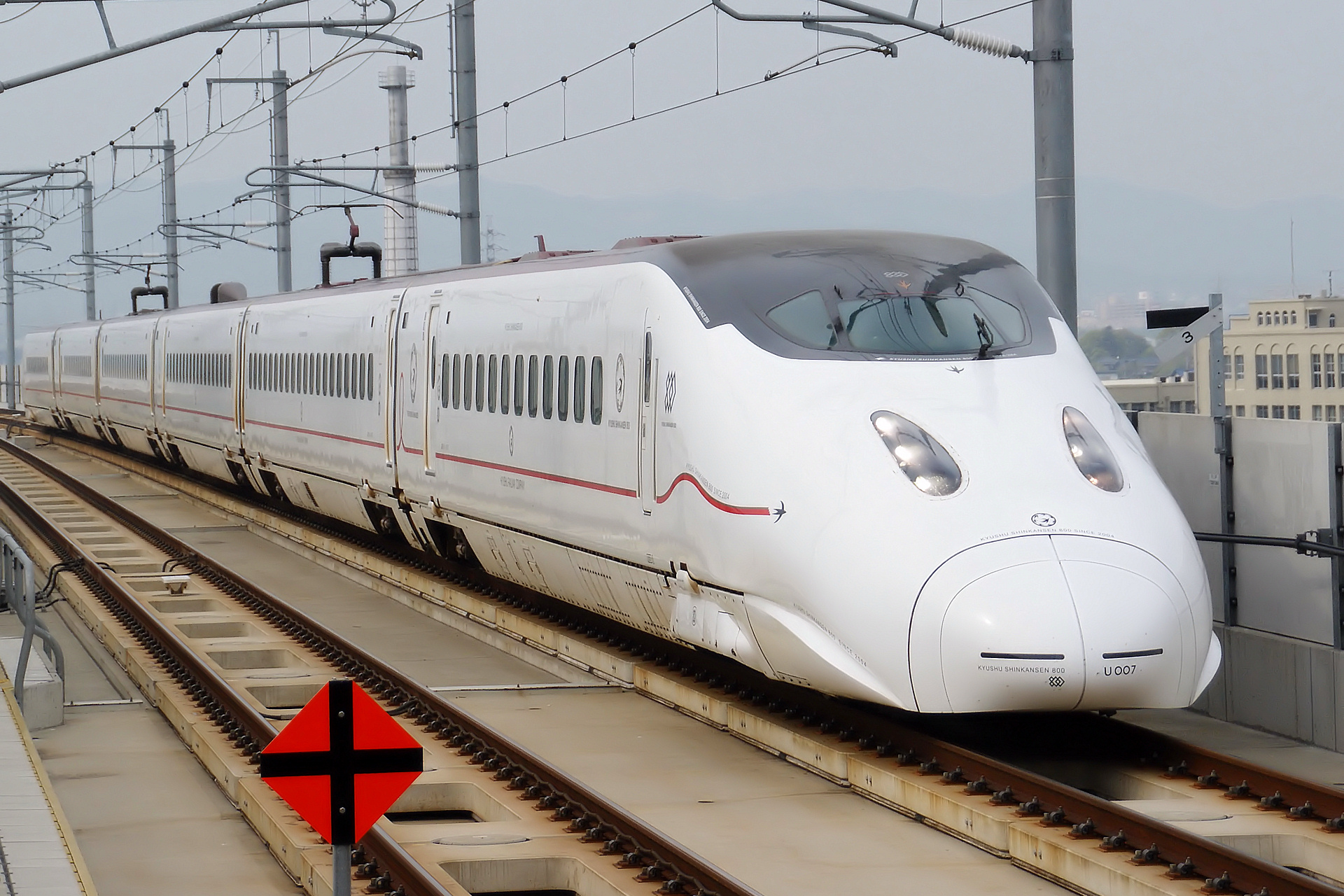 JR Kyushu 800-1000 series set U007 approaching Kurume Station on the Kyushu Shinkansen